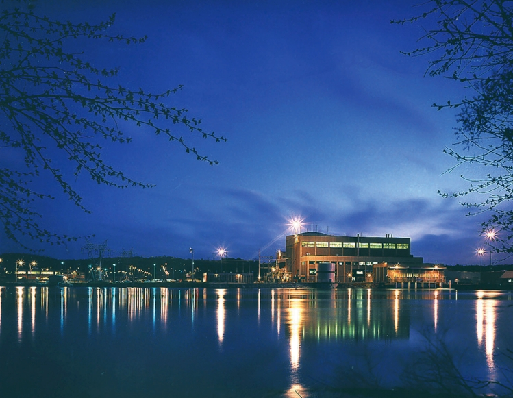 Fort Calhoun Nuclear Power Plant